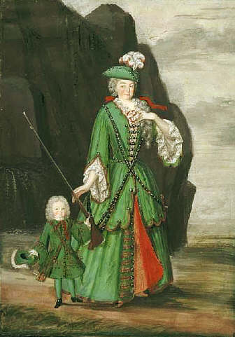 Duchess Sibylle of Saxe-Lauenburg (1675-1733), Margräve of Baden, with her Son Louis George, Margrave of Baden-Baden (1702-1761)